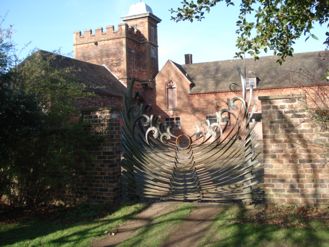 Eternity Gates at Dudmaston Hall These gates were designed and built by Antony Robinson in 1983 to celebrate the ruby wedding anniversary of Sir George and Lady Labouchere. The stables behind were built by William Whitmore in 1789.